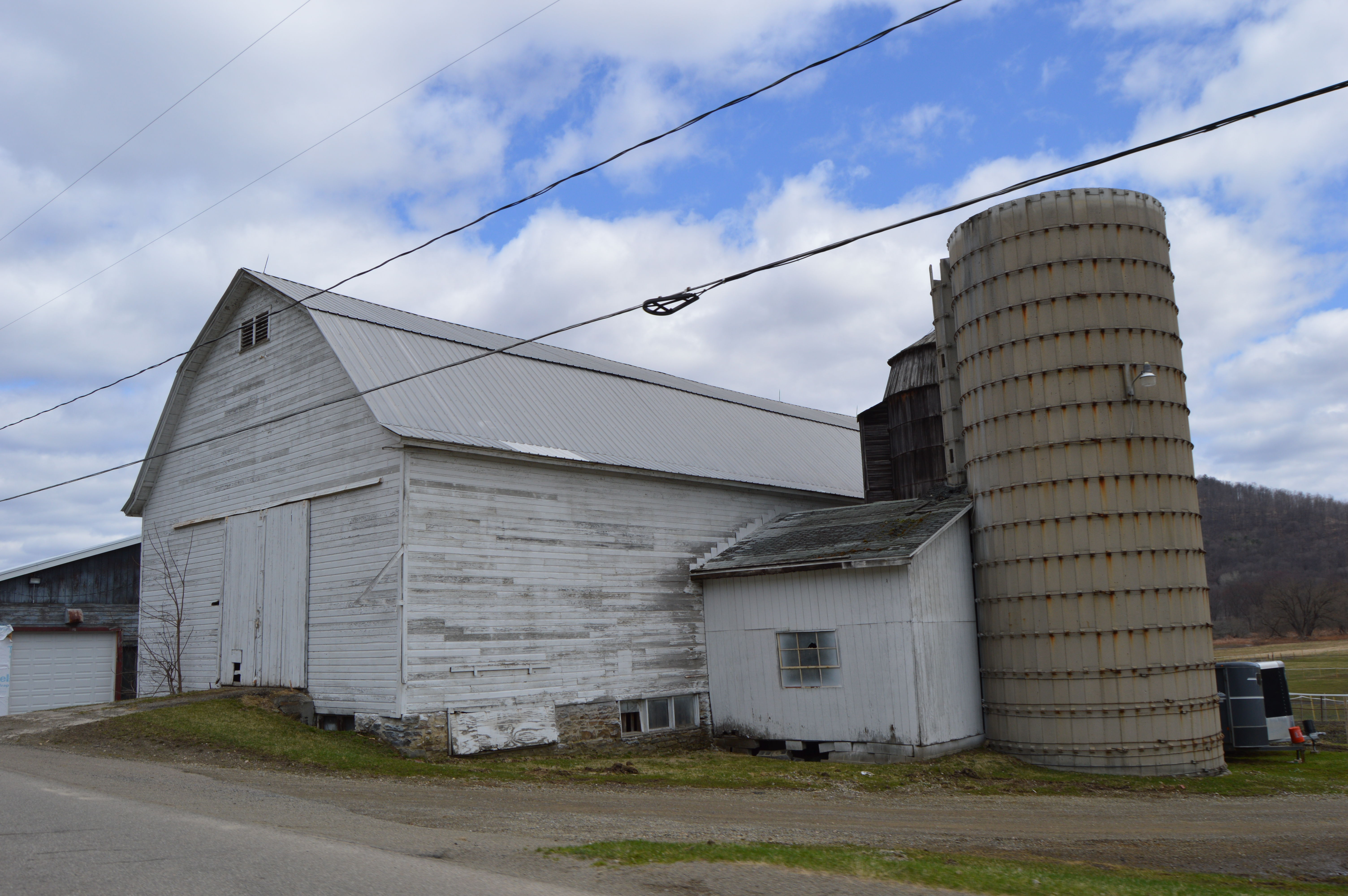 A bank barn and silo on the eastern side of Parkside Drive in extreme southern Carrollton, New York, United States, approximately 500 feet north of the Pennsylvania state line.